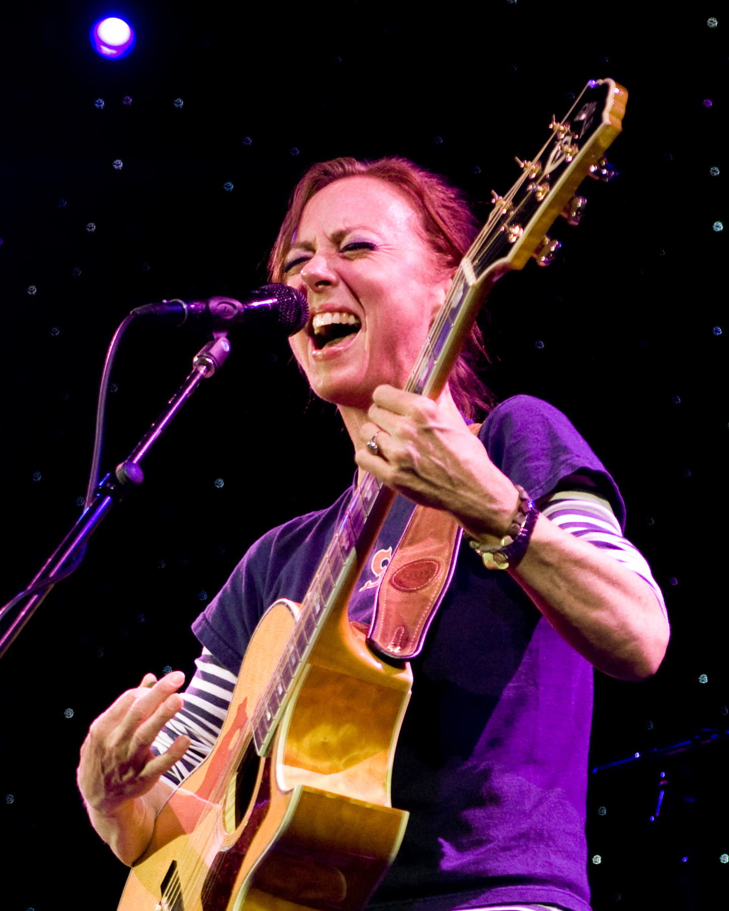 Jonatha Brooke @ The Triple Door, Seattle, Washington 8-14-09